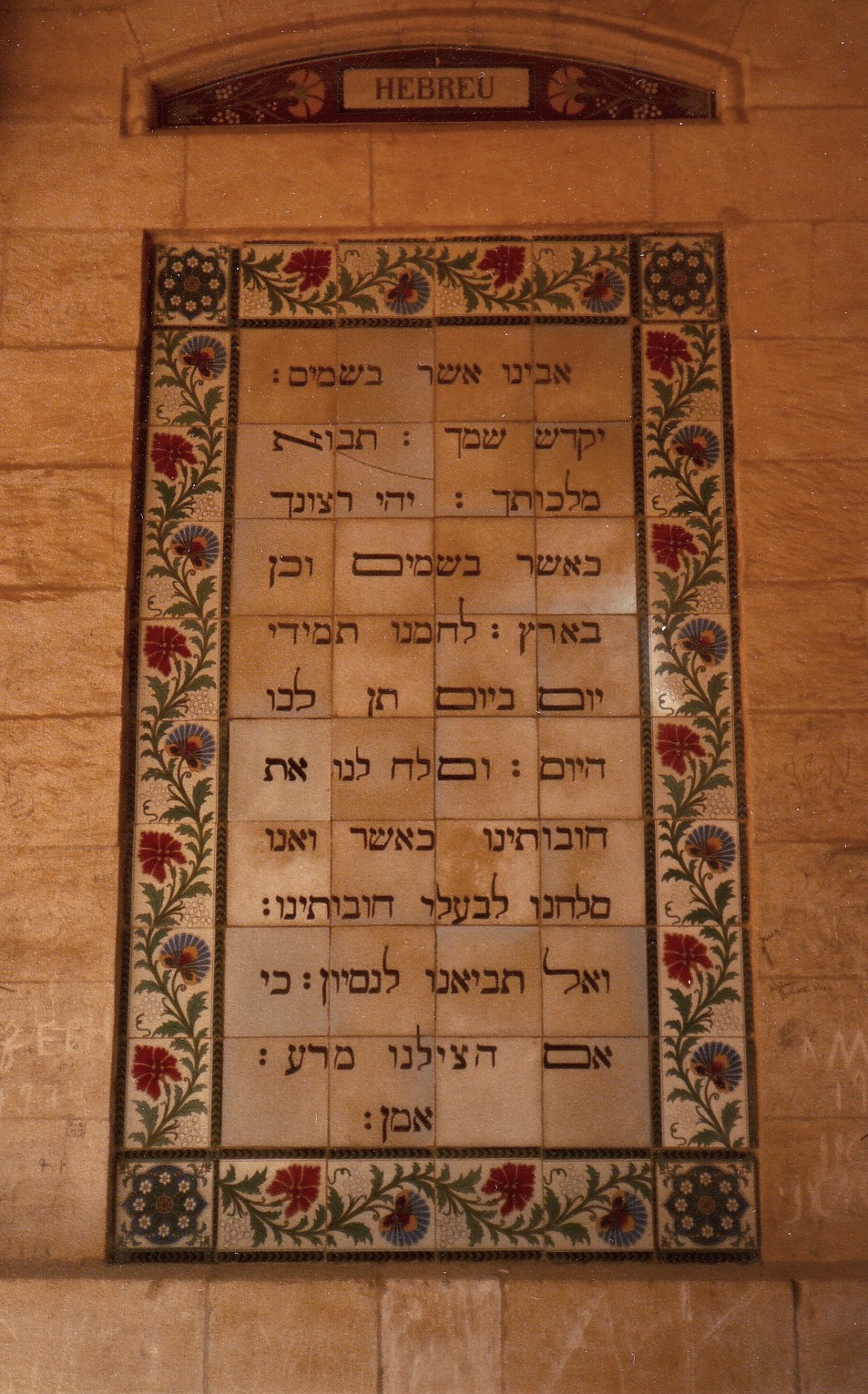 Lord's Prayer in hebrew in the Pater Noster Chapel in Jerusalem